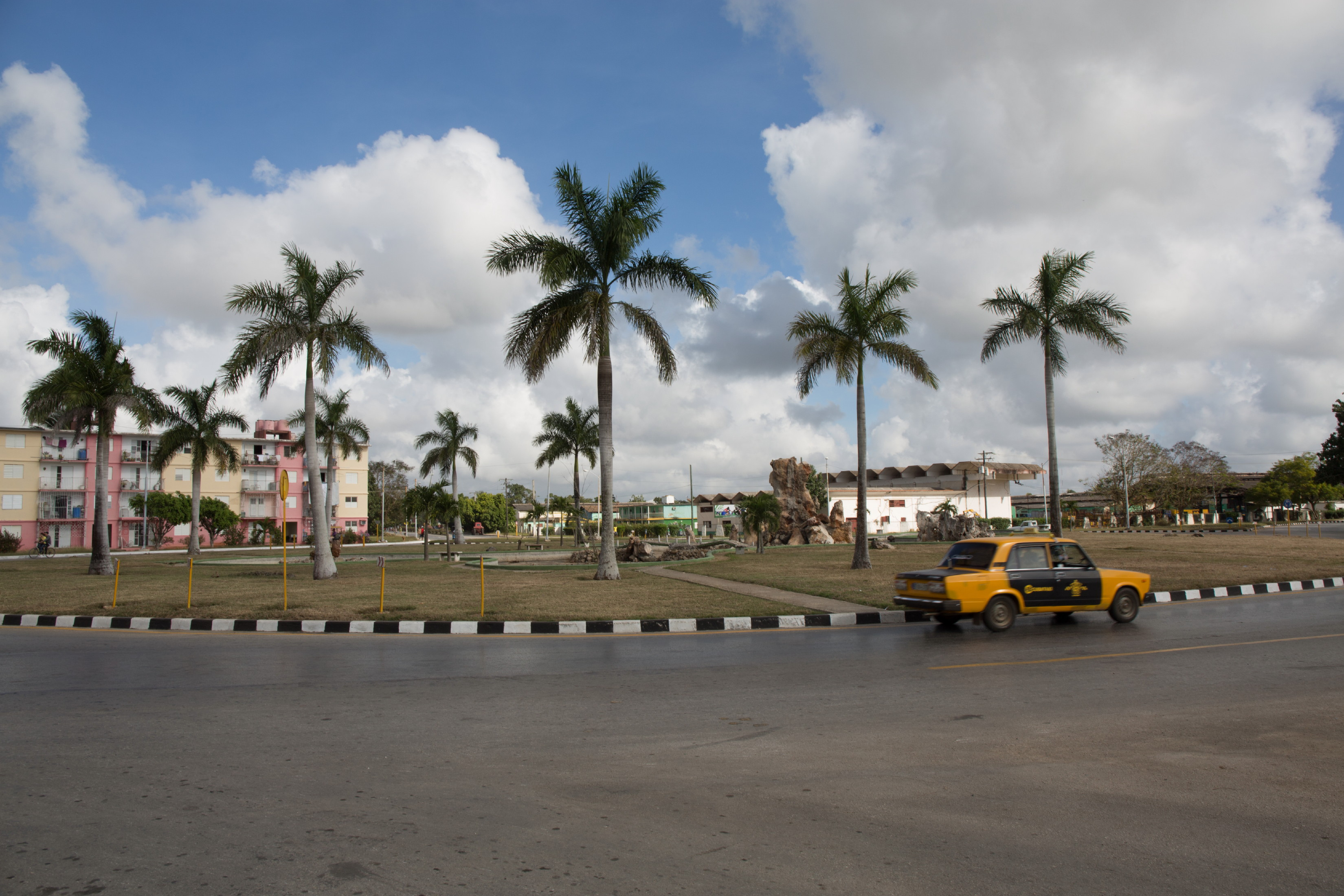 Cuba, Ciego de Ávila, provincial capital